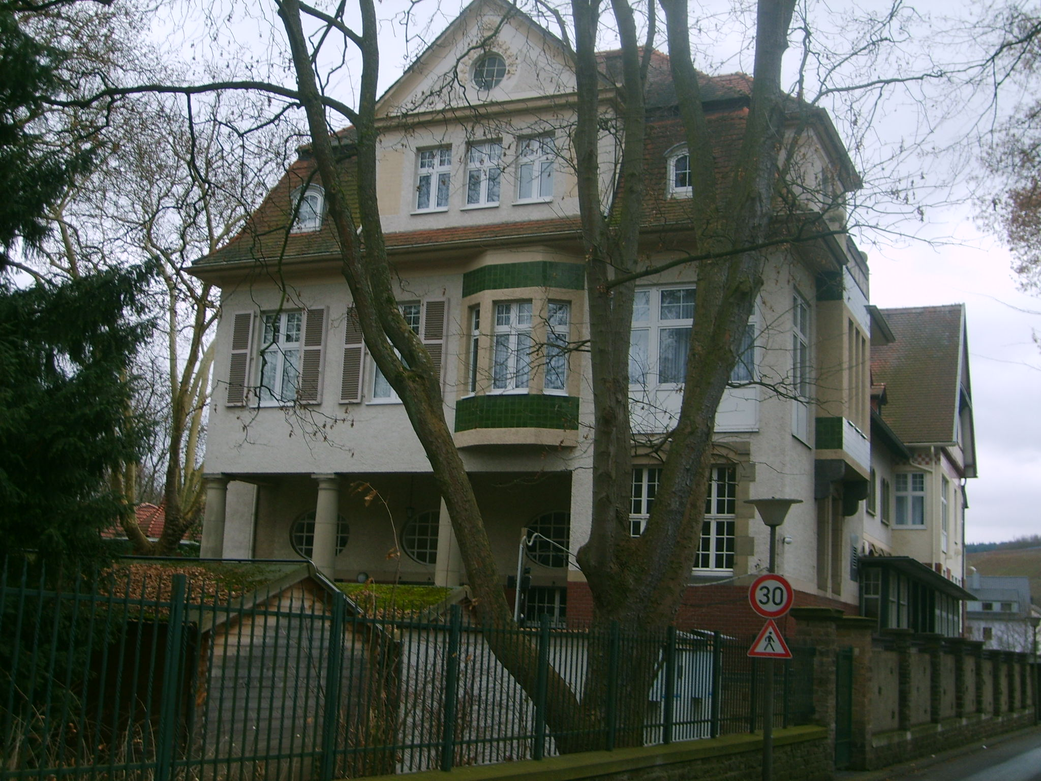 Villa Sophia (for private insured female patients)